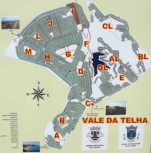 Global map of the urbanization located in Aljezur, Portugal, depicting its main features and sectors.